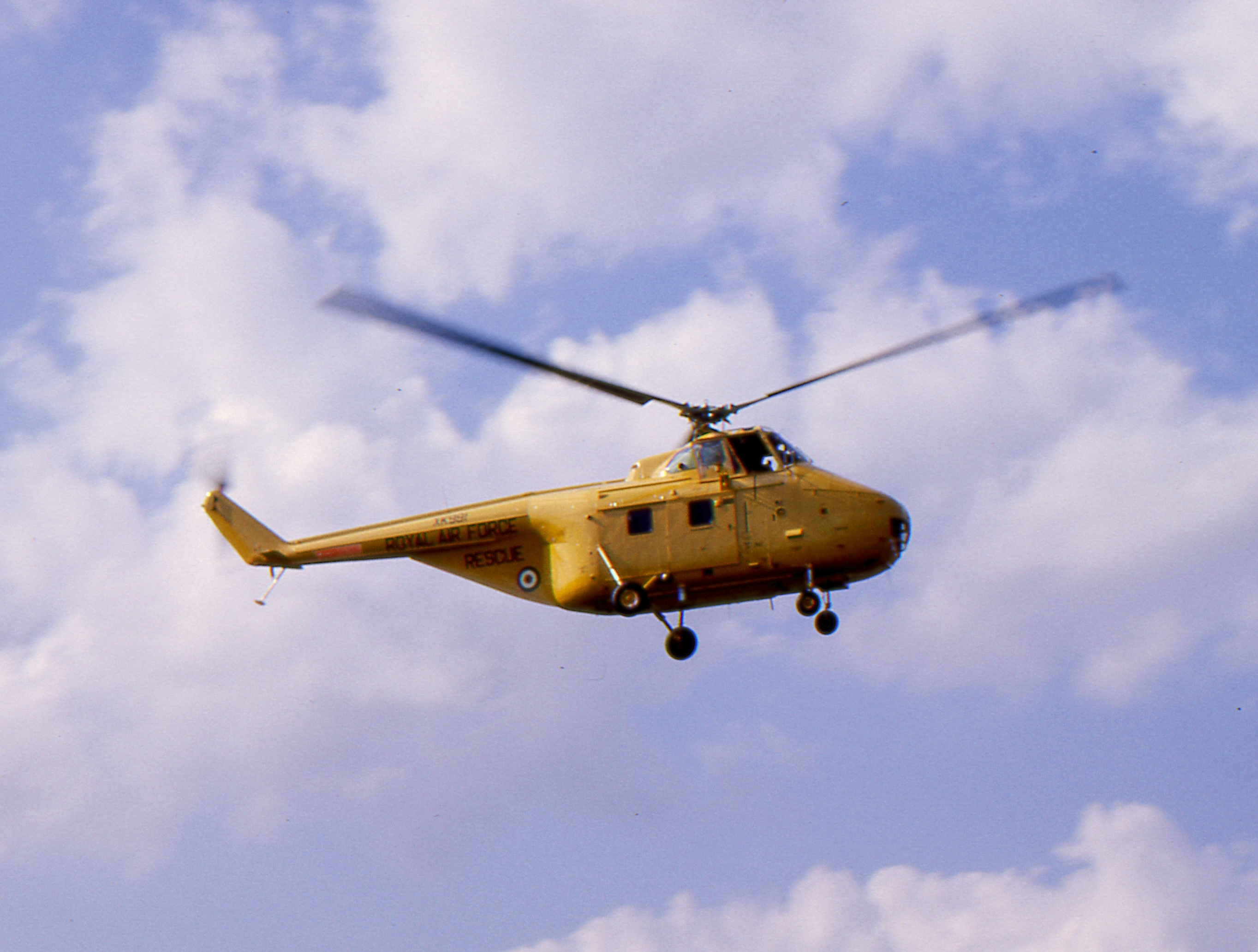 The last Westland Whirlwind XK991, a Bristol Gnome turbine powered Mk HAR.10, in Air-Sea rescue yellow at the SBAC show Farnborough, 8 September 1962.